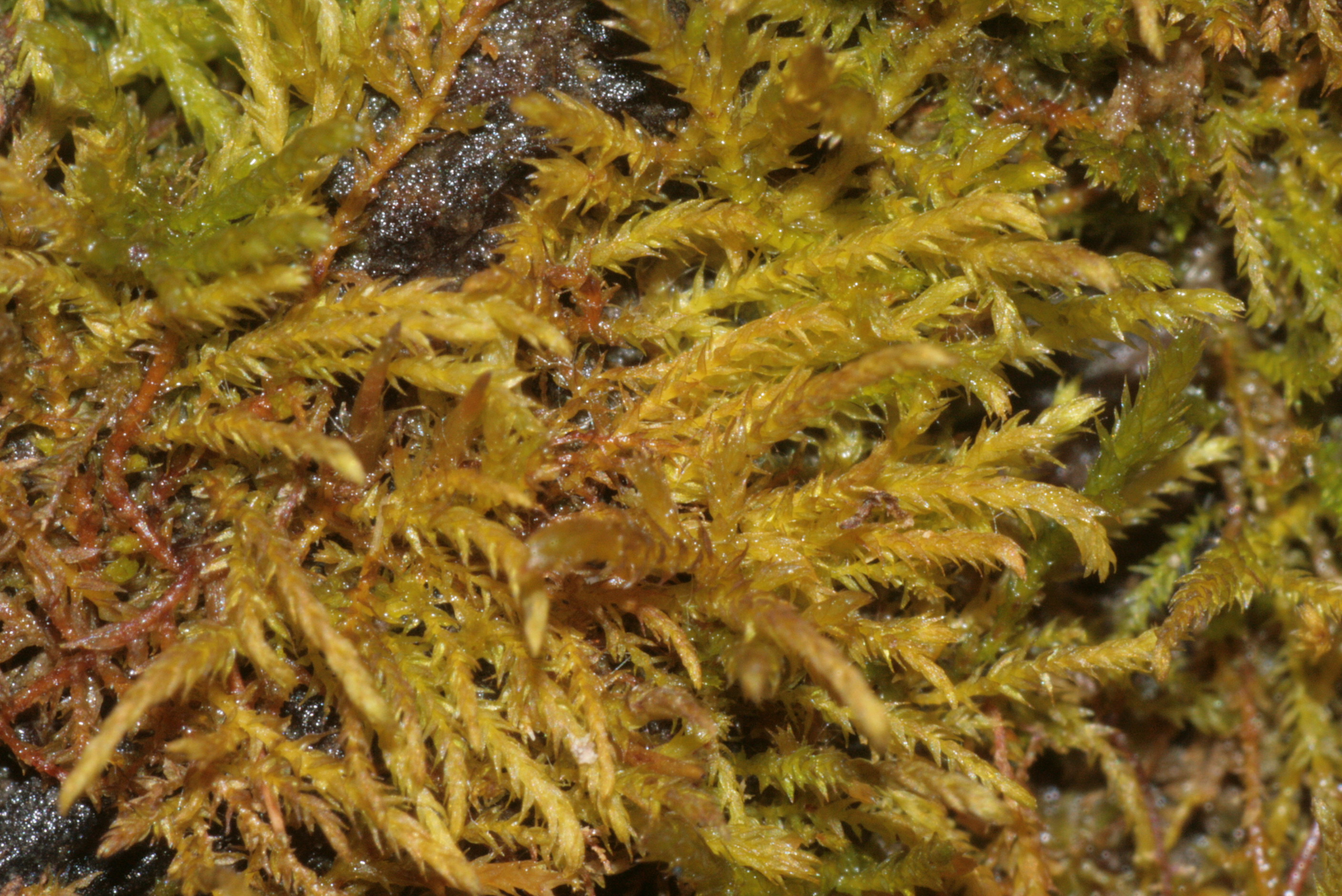 Leskea polycarpa